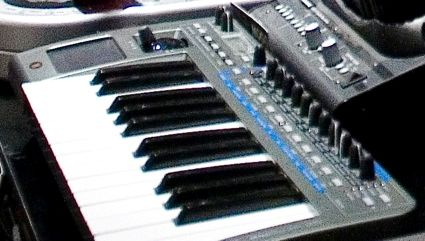 Novation Xio-Synth Moog Audio (shop) interior 1, Montreal, Canada